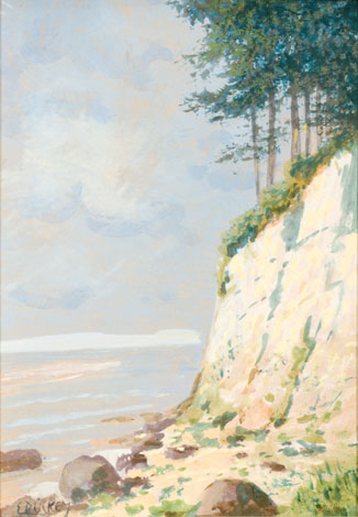 Eugen Gustav Dücker, "High seashore", 1900-1910, tempera, board, 24 x 17.4 cm